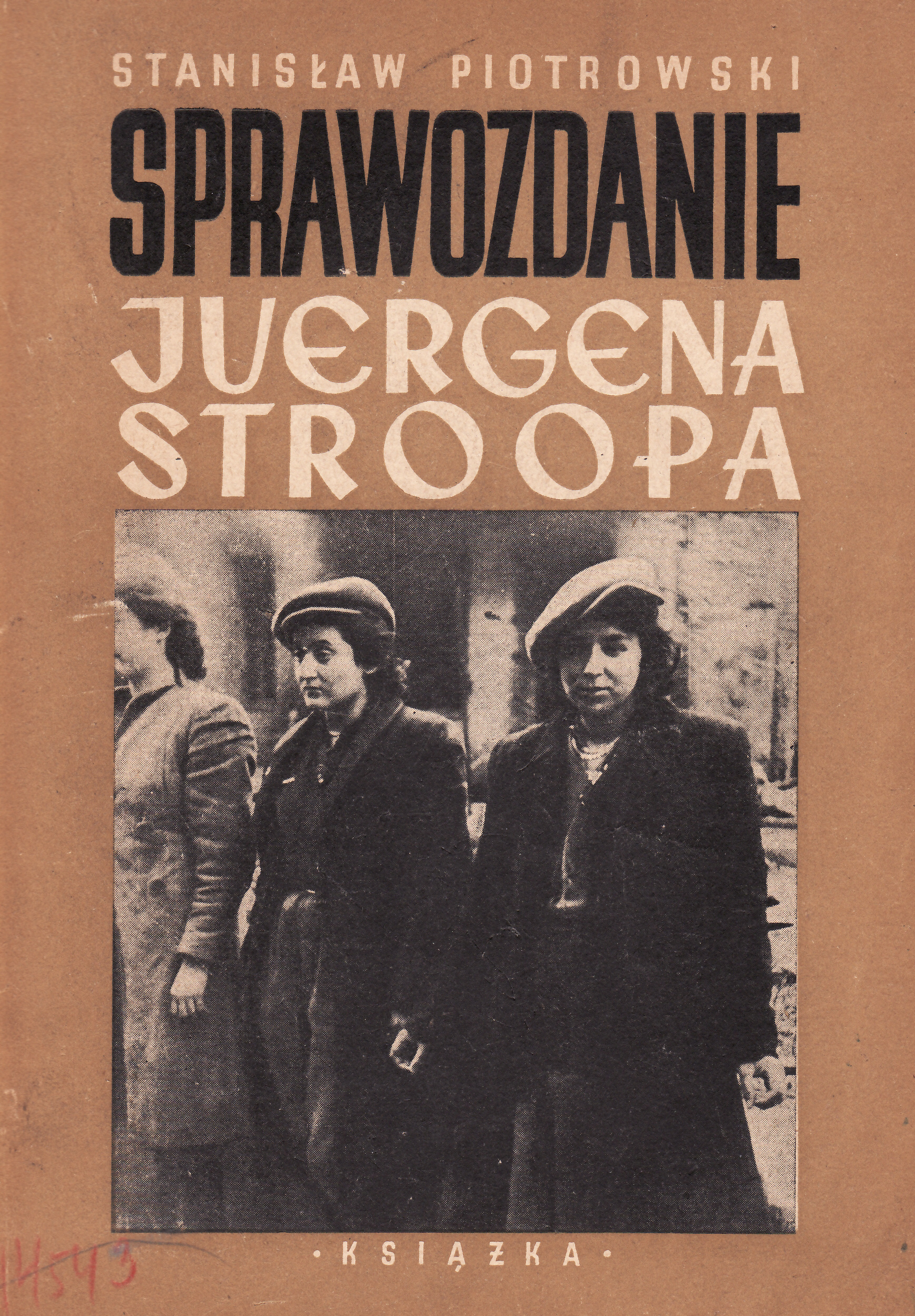 The cover page of Stanisław Piotrowski book "Sprawozdanie Juergena Stroopa" about Jürgen Stroop Report. Many of the photographs from the report were first published in that book.